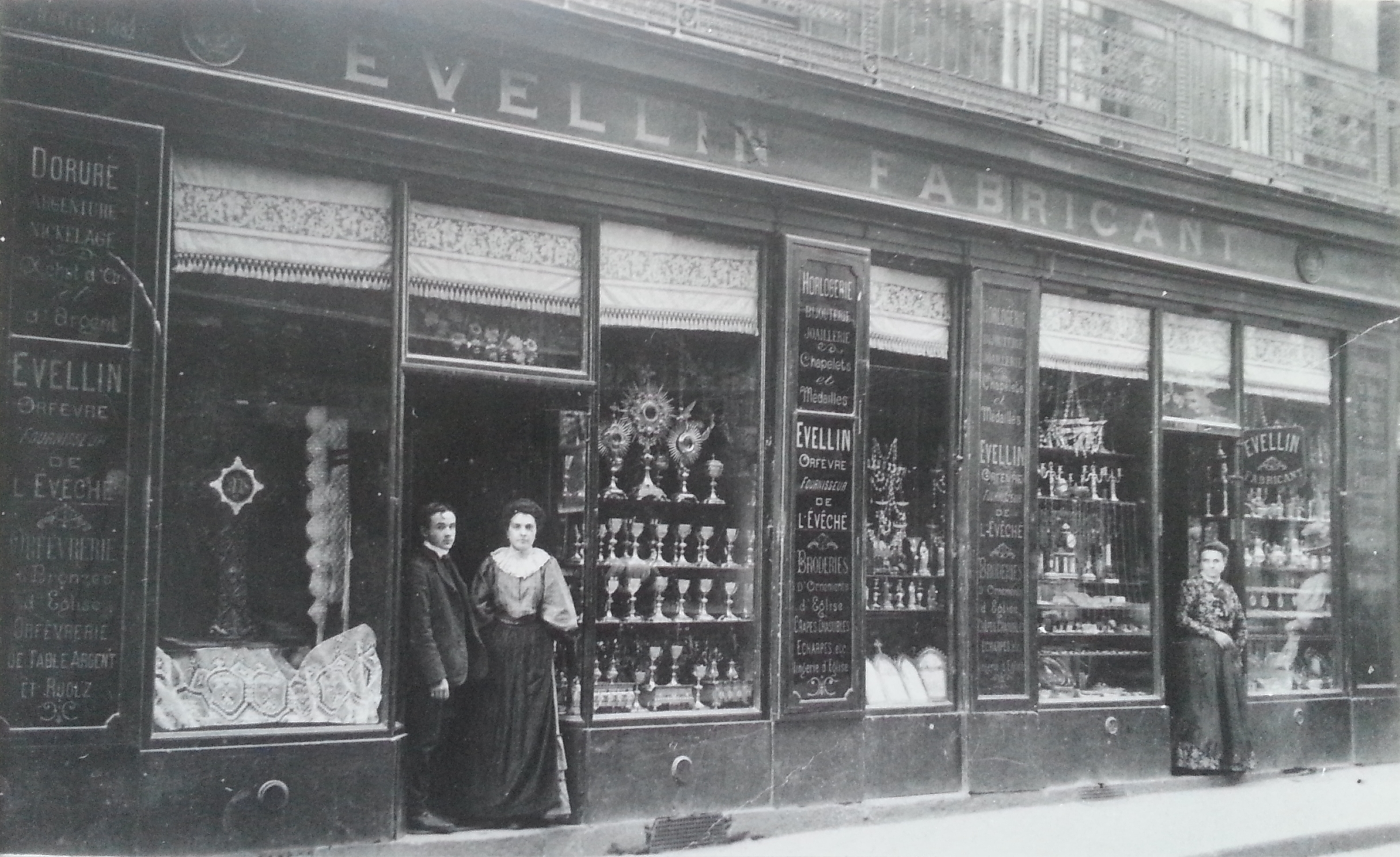 Evellin silversmith shop in Nantes, circa 1905.